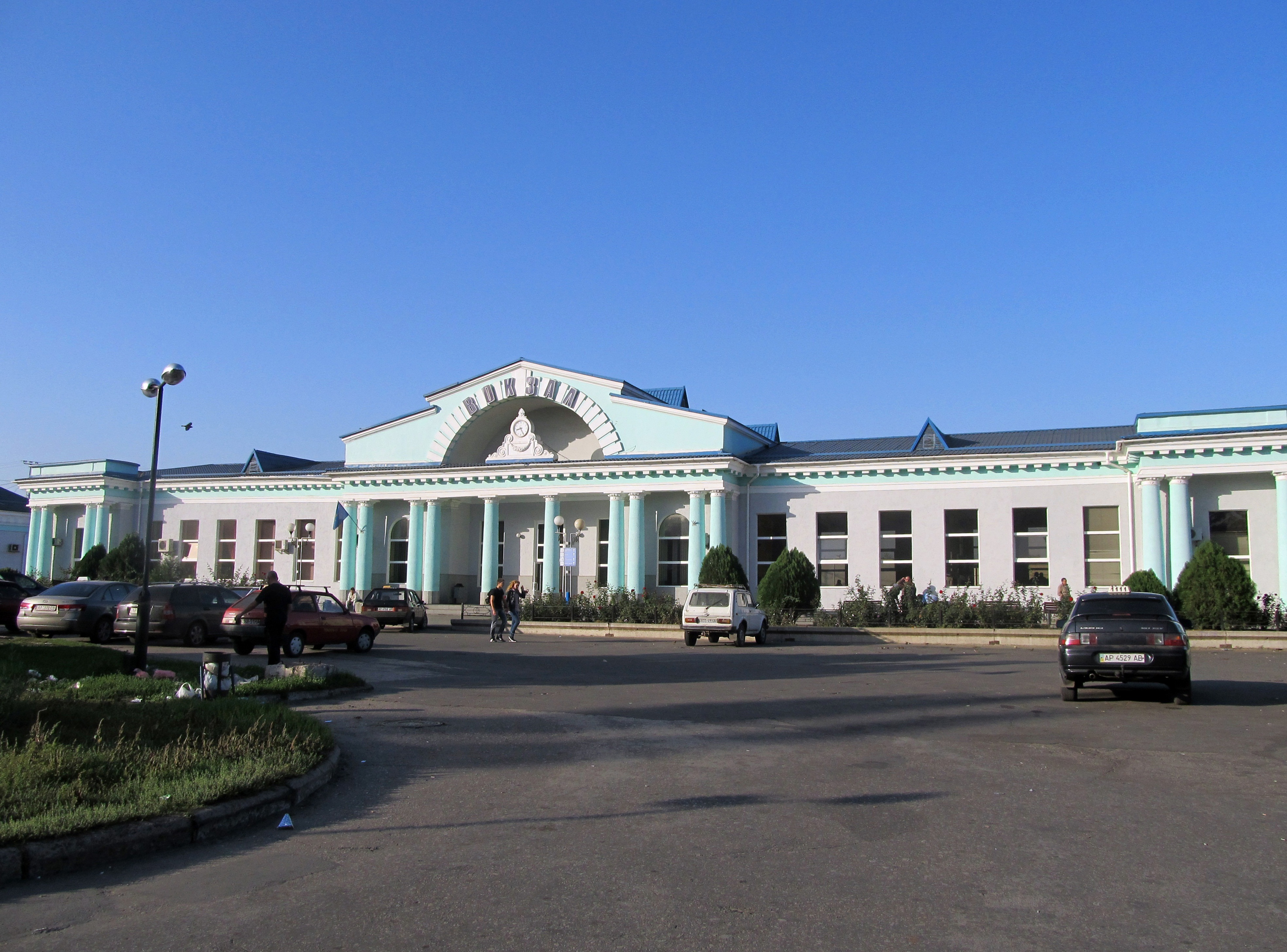 Melitopol Station (Zaporizhia Oblast, Ukraine).